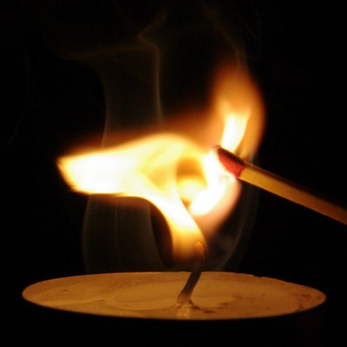 Supplementary photo, multi-use, The 1-Million-Picture-Story